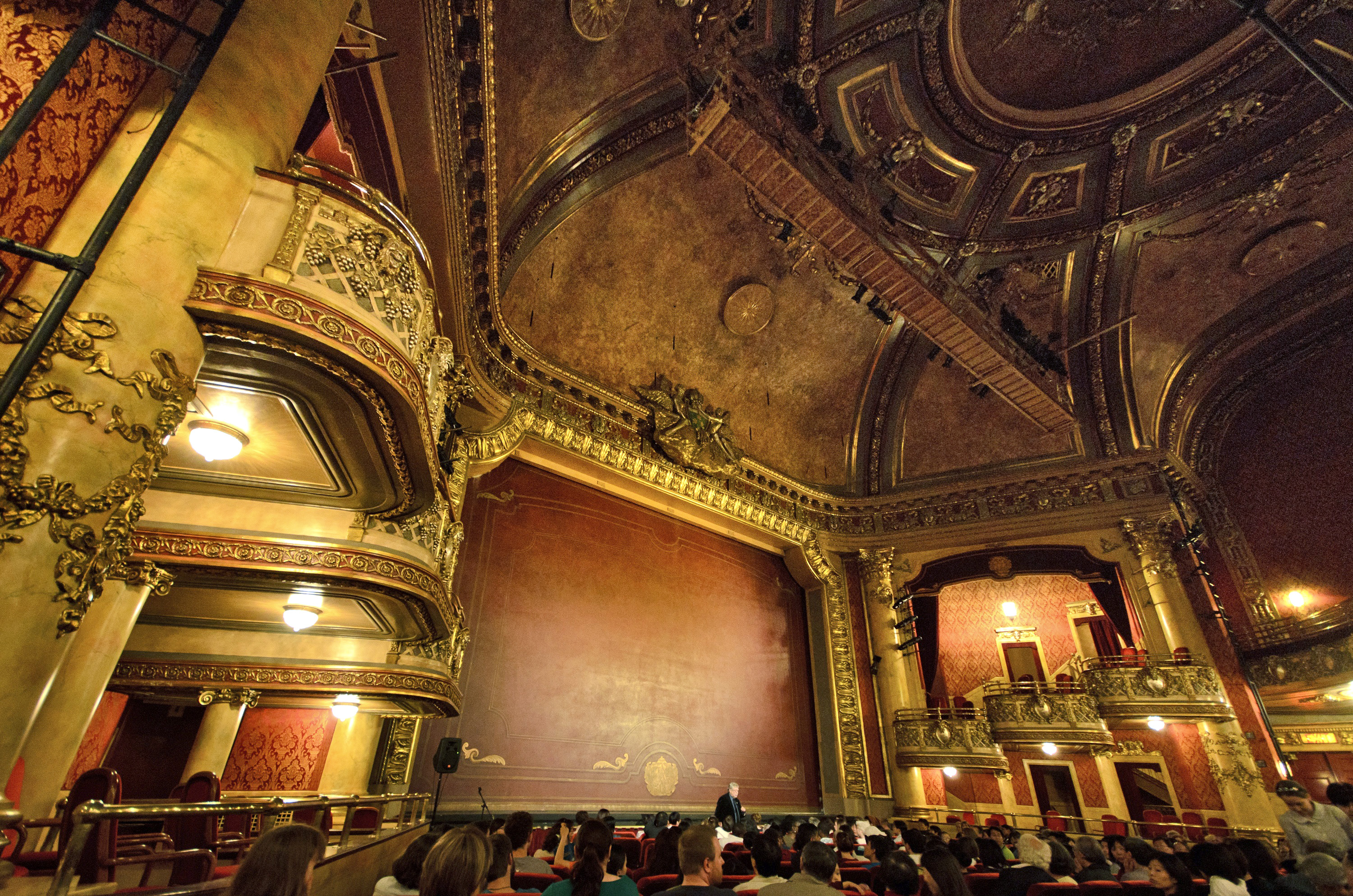 Elgin Theatre interior decoration with plaster cherubs, gold filigree and ornate opera boxes